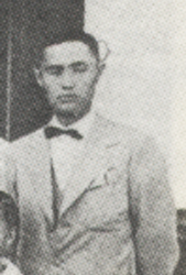 Yun Kwang-sun, son of Yun Chi-ho